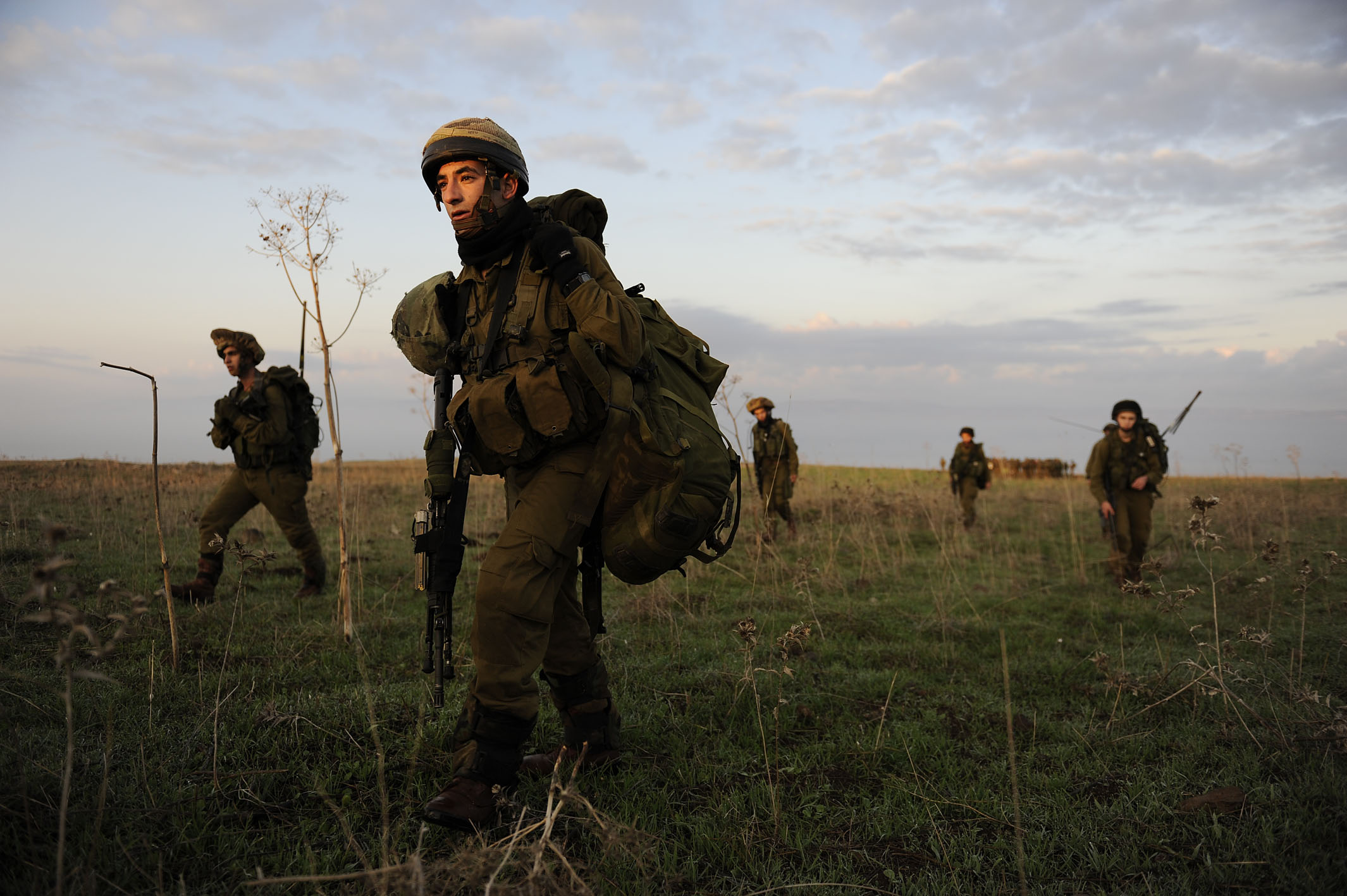 November 25, 2011 The Herev (sword) battalion is composed completely by Druze citizens that choose to enlist to this unit. Stationed mostly in the Northern Boarder of Israel, they can be seen in the following picture as they conduct an exercise meant to keep their awareness and efficiency to the maximum. Featured as Photo of the Day on November 27, 2011 The Israel Defense Forces Facebook page The Israel Defense Forces blog Follow us on Twitter